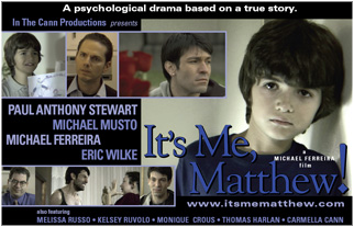 It's Me, Matthew!